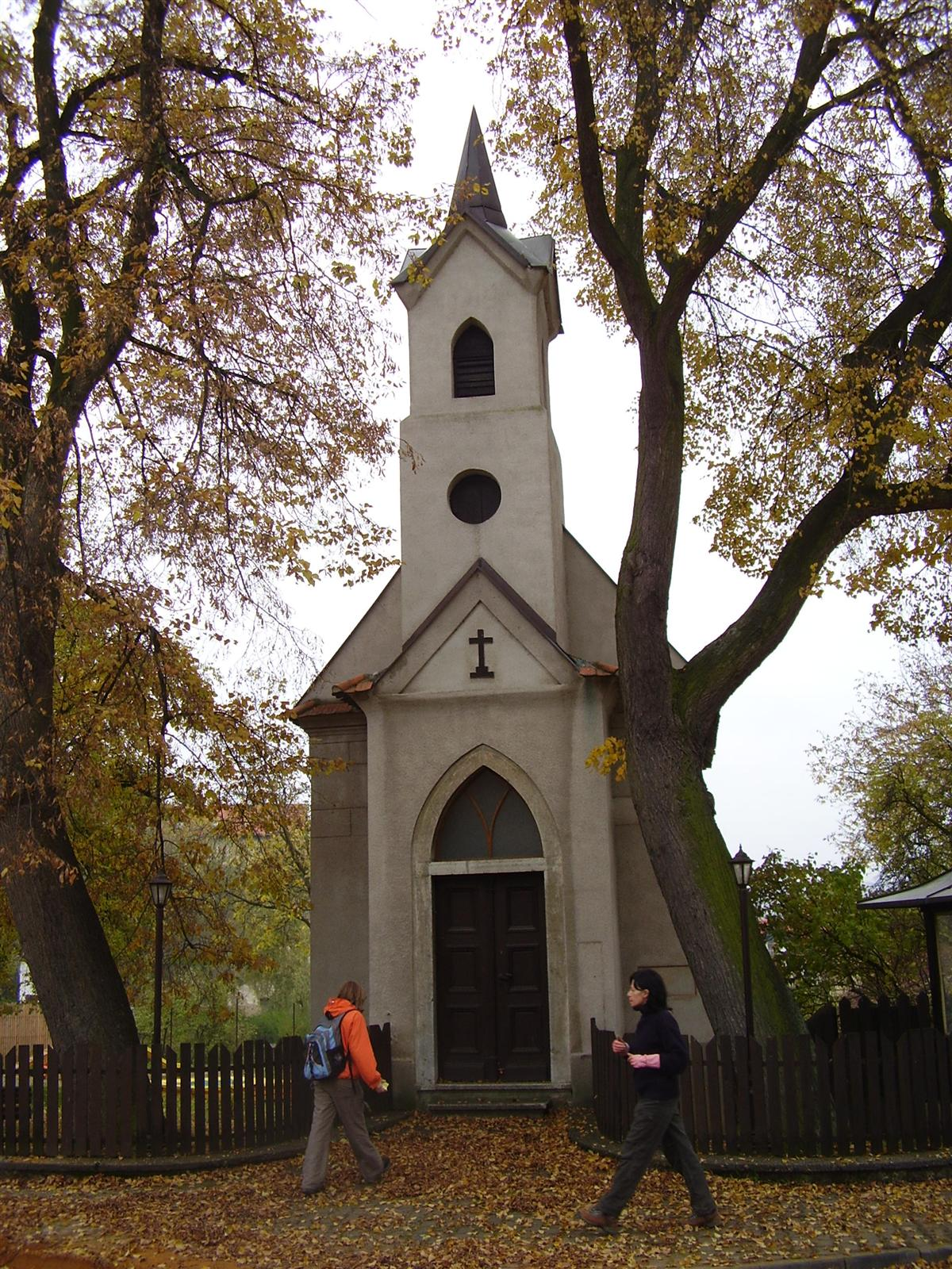 Sv. Václav chapele in Vonoklasy near Prague